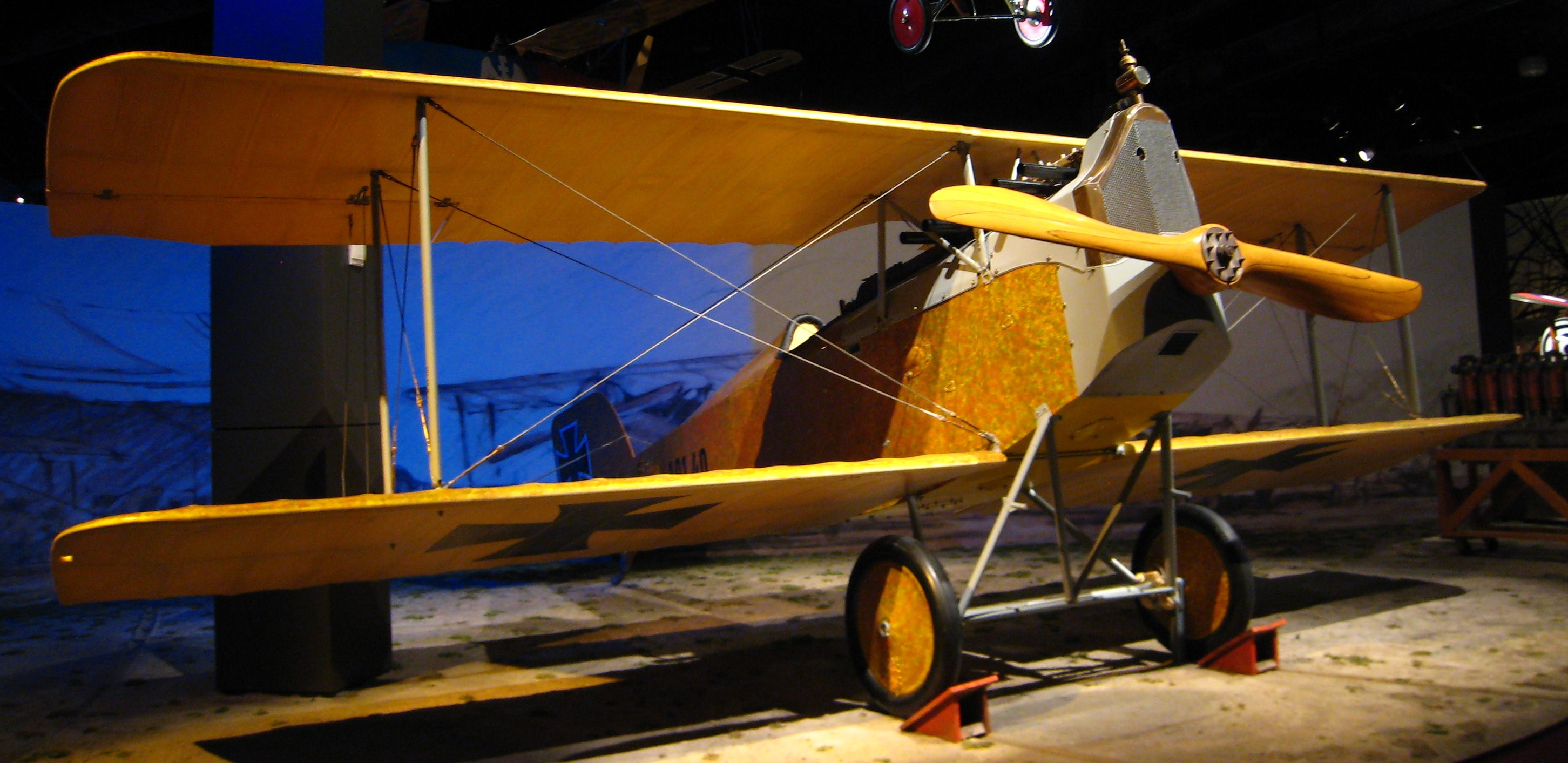 Original Aviatik D.I Fighter (also known as the Berg Scout), at The Museum of Flight, Seattle, WA.